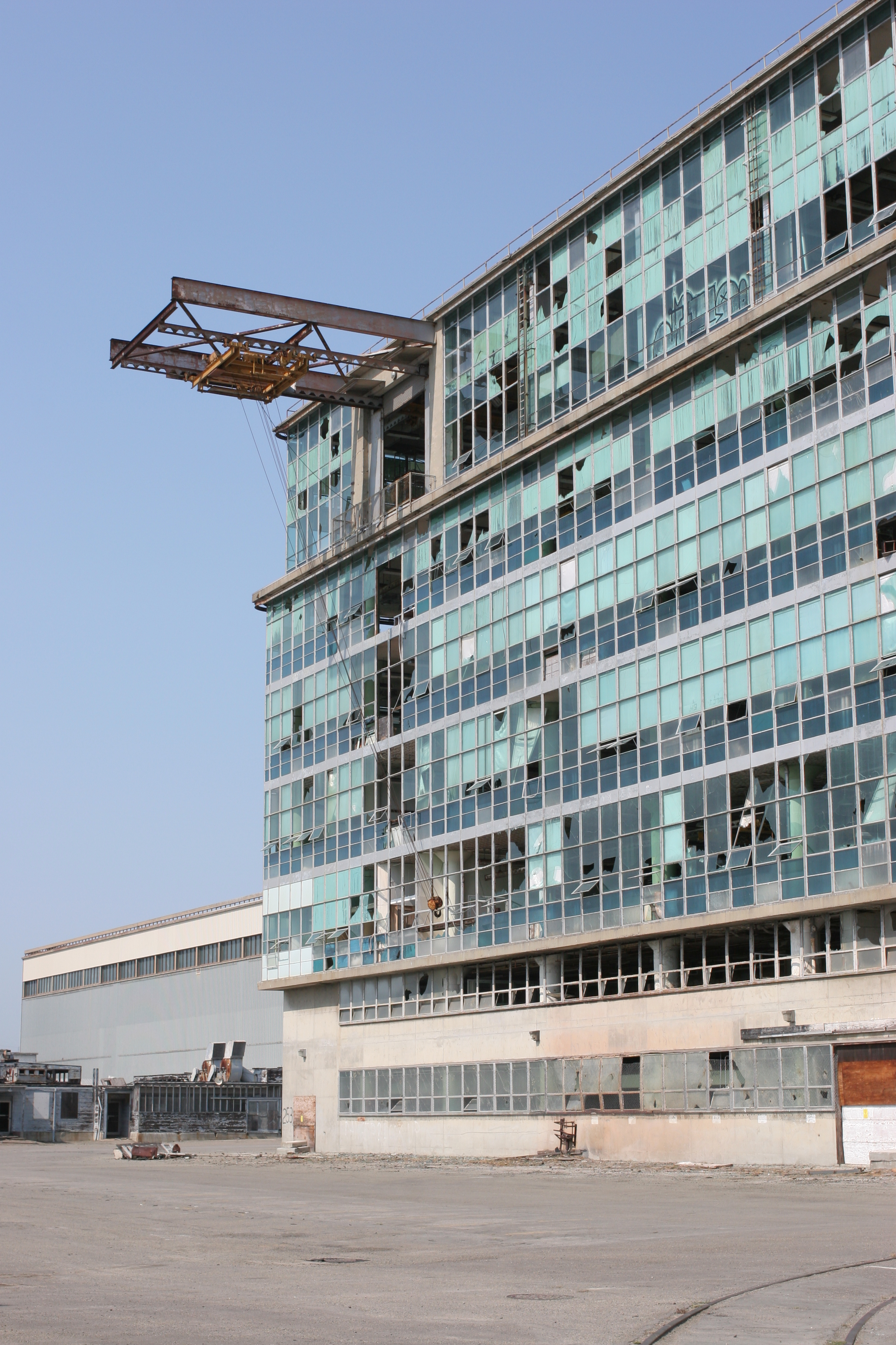 Derelict Building 253 (formerly ordnance/electrical/electronics shops) at US Navy's Hunters Point Shipyard, San Francisco, CA USA.Viewpoint location: Nimitz Avenue, San Francisco Naval Shipyard, Hunters Point, San Francisco, CA, USA.Camera: Canon 20D with 35mm lens